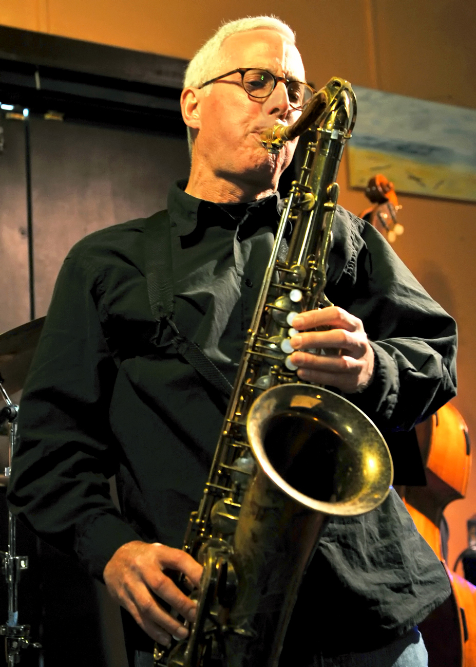 Tenor Saxophonist Rich Halley performing at the 2011 "In The Flow Festival" in Sacramento, CA. Photo by Bob Pyle